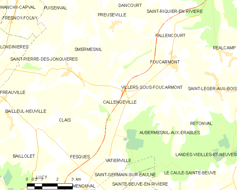 Map of French municipality Callengeville